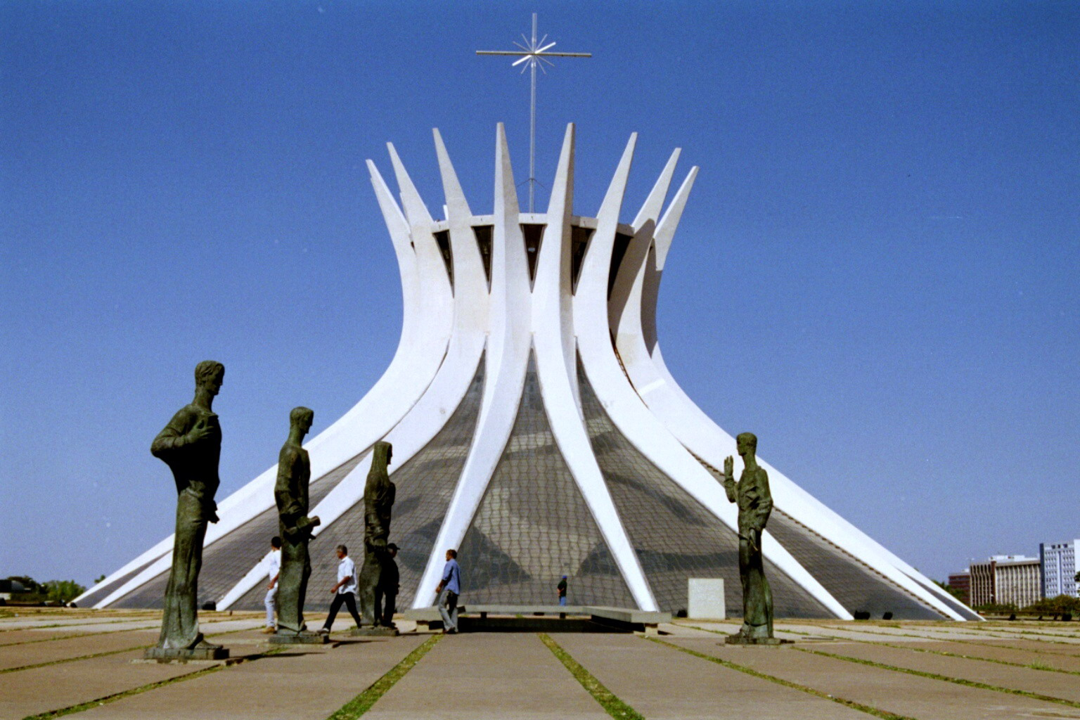 Kathedrale in Brasilia